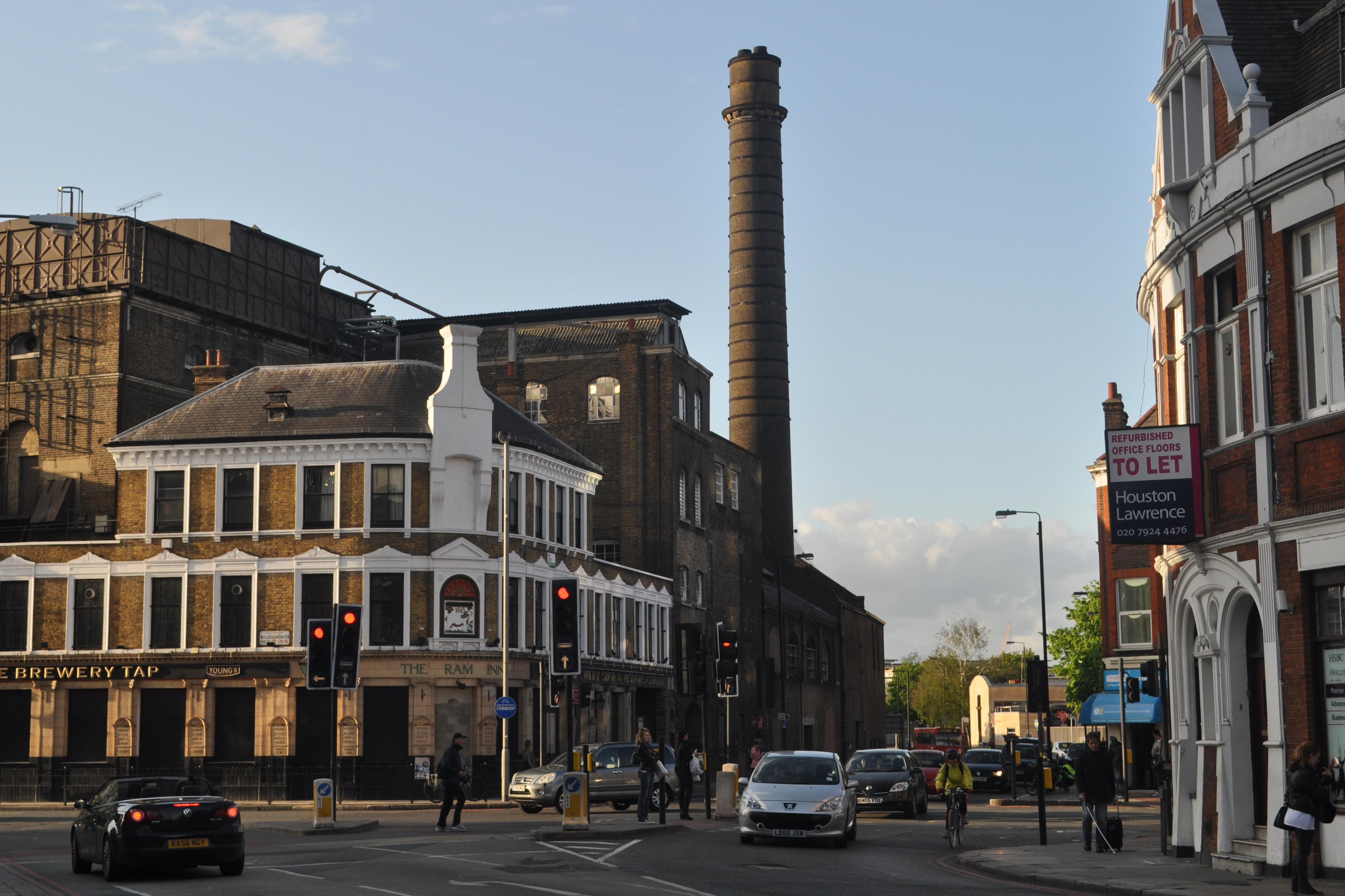 Youngs' Ram Brewery complex and Brewery Tap pub, listed buildings 1065461 and 1391087. London Borough of Wandsworth